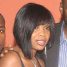 Guinness World Record for "Longest Dance Party" Kaffy and Multiple Award Winning Singer 2baba with the Executive Producer of My Funky Birthday TV Nig and PadMan Initiative Crooner at a reunion to work with this superstar on a Charity Project.